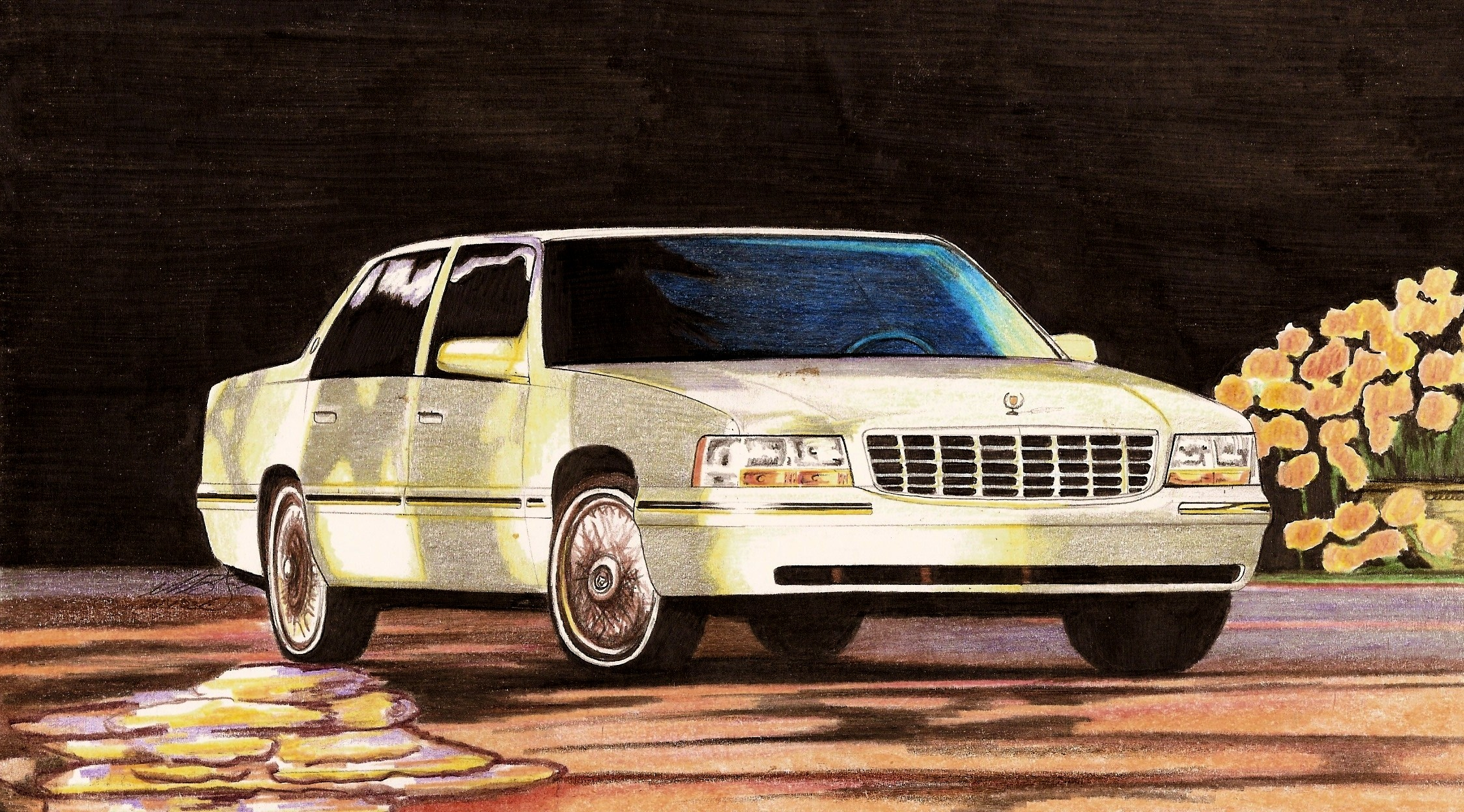 A drawing of Cadillac De Ville 4.6 V8 1995-1999 .